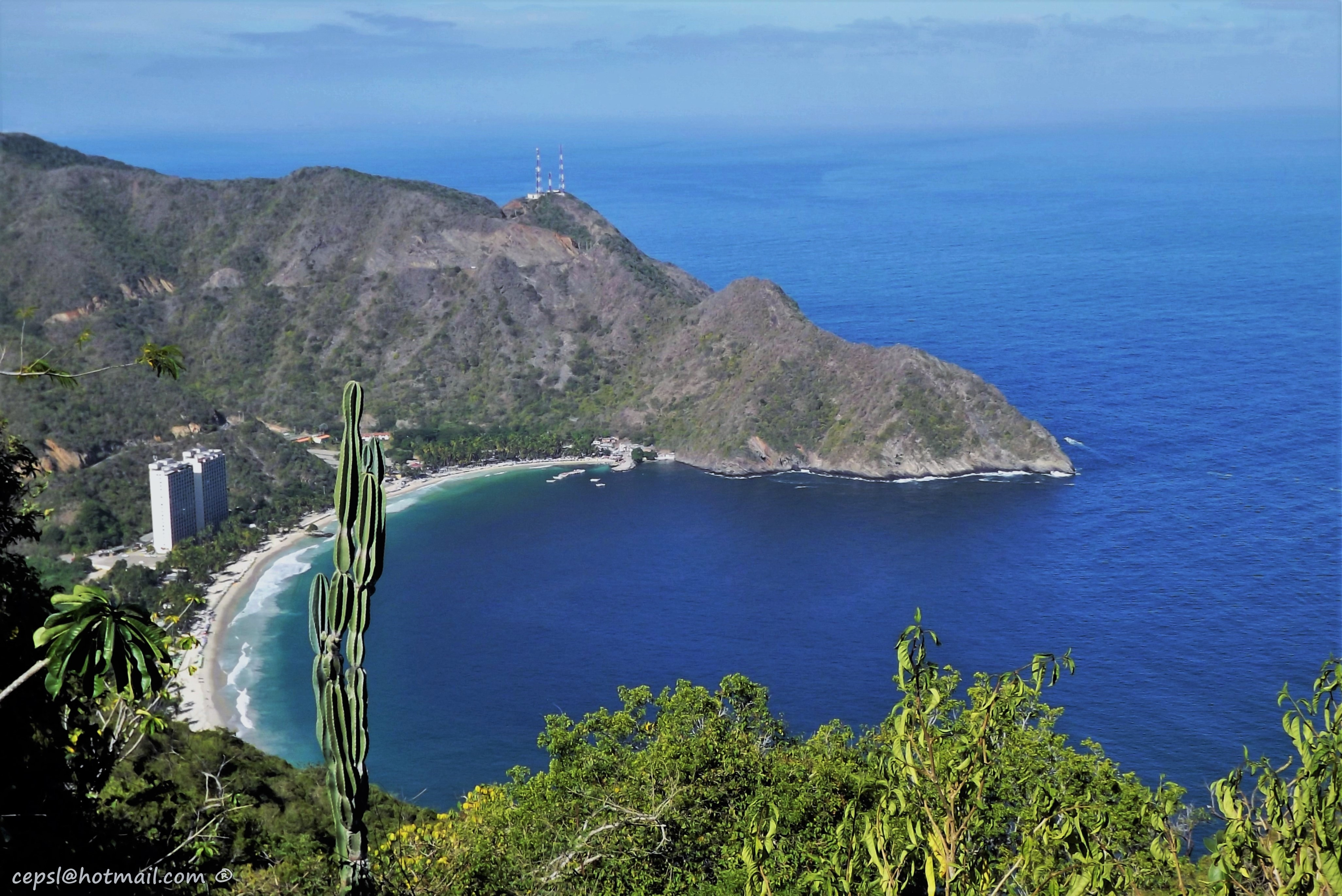 Overview Cata Bay from the lookout route to Cuyagua